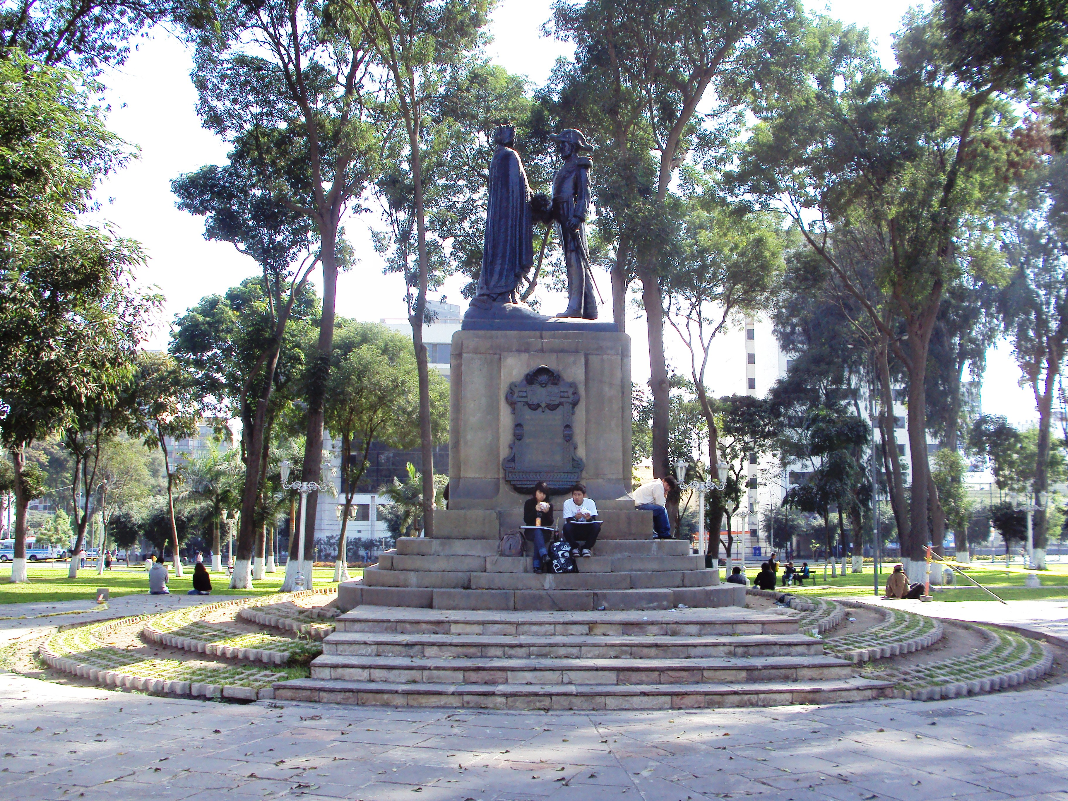 Statue of Petit Thouars in Santa Beatriz, Lima (Peru).